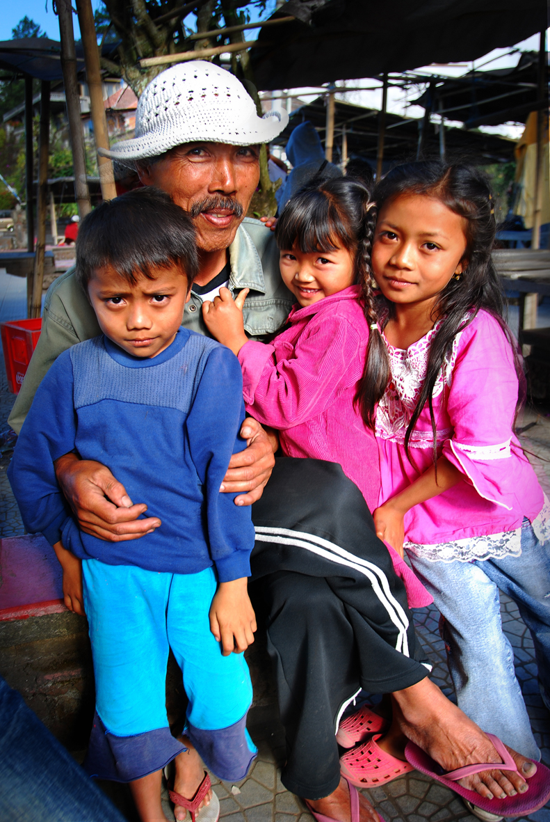 One happy family. The one in pink looks Japanese. Very fun subjects to work on. The people are extremely friendly and honest in Bali. It's fun to work on portrait shots with them.